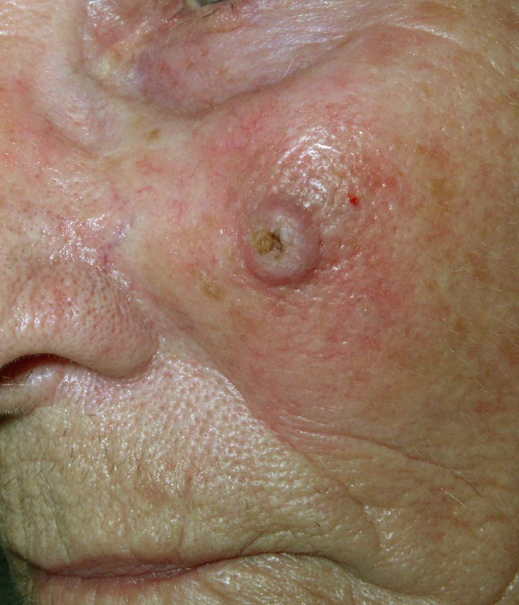 Epithelioma spinocellulare (80-year-old woman). Diagnosis was histologically verified